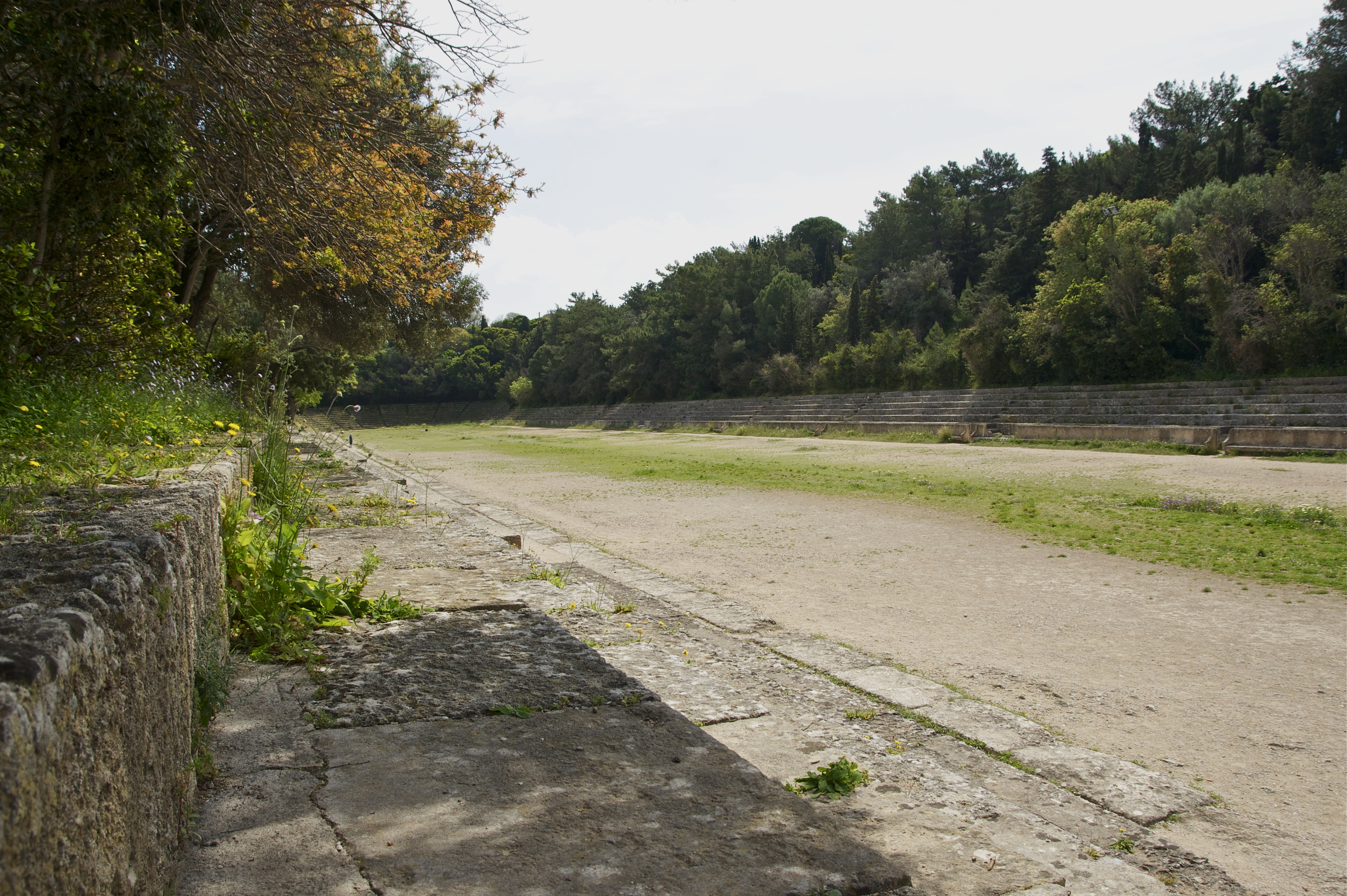 Acropolis of Rhodes, ancient stadium. Greece.